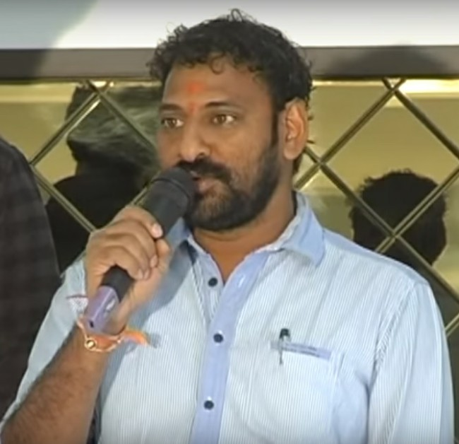 Indian filmmaker Srikanth Addala in an interaction with the press during the theatrical release of his Telugu-language directorial Mukunda in December 2014